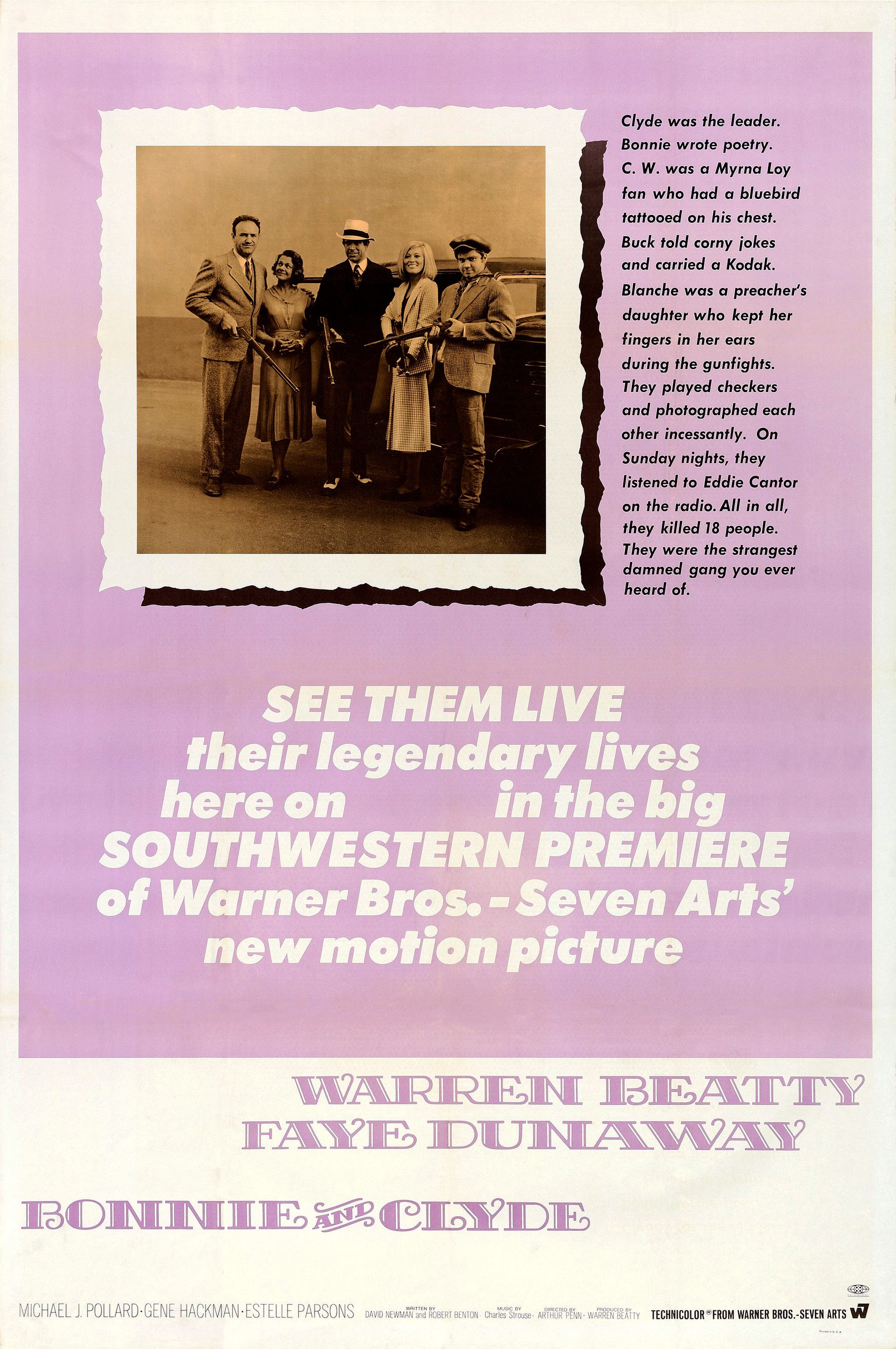 Theatrical teaser poster for the Southwestern premiere of the 1967 film Bonnie and Clyde. The text reads: "Clyde was the leader. Bonnie wrote poetry. C. W. was a Myrna Loy fan who had a bluebird tattooed on his chest. Buck told corny jokes and carried a Kodak. Blanche was a preacher's daughter who kept her fingers in her ears during the gunfights. They played checkers and photographed each other incessantly. On Sunday nights, they listened to Eddie Cantor on the radio. All in all, they killed 18 people. They were the strangest damned gang you ever heard of. See them live their legendary lives here on ______ in the big Southwestern premiere of Warner Bros.–Seven Arts' new motion picture"